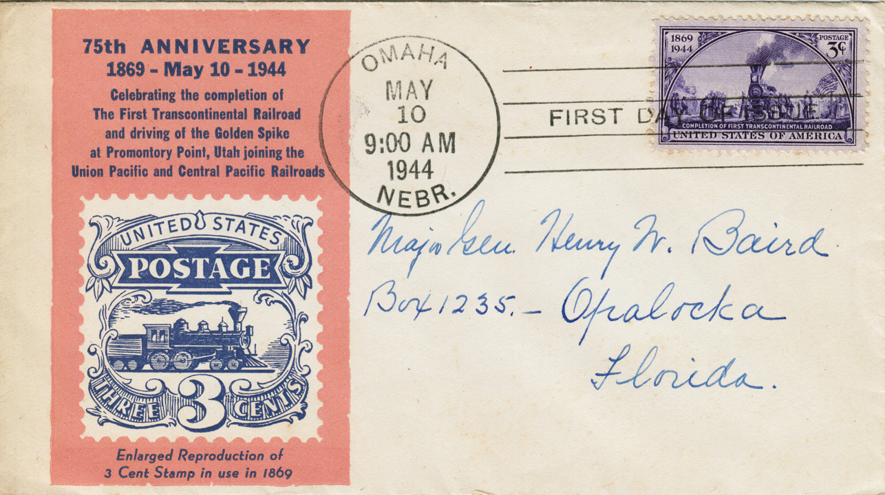 First Day Cover commemorating the 75th anniversary of the First Transcontinental Railroad franked with 3-cent Sc922 issued on May 10, 1944, the 75th anniversary of the driving of the "Last Spike" at Promontory Summit, U.T., on May 10, 1869. First Day Covers for this issue were authorized to be canceled on that date in three cities — San Francisco, CA, Ogden, UT (transition point between the CPRR and UPRR), and Omaha, NE (starting point of the UPRR). The illustrated First Day Cover canceled in Omaha includes in its cachet an illustration of the 3-cent Sc114 issued in 1869, the first US postage stamp to illustrate a railroad theme. Along with Sc113 issued at the same time and which illustrated a Pony Express rider, these two postage stamps were the first ever issued by the United States which did not contain a portrait of Benjamin Franklin, the first US Postmaster General, or one of four former US Presidents -- George Washington, Thomas Jefferson, Andrew Jackson and Abraham Lincoln. The cover illustrated here was originally a part of a collection of postal history built over a period of more than half a century beginning in the early 1920s by the late Major General Henry W. Baird, USA.